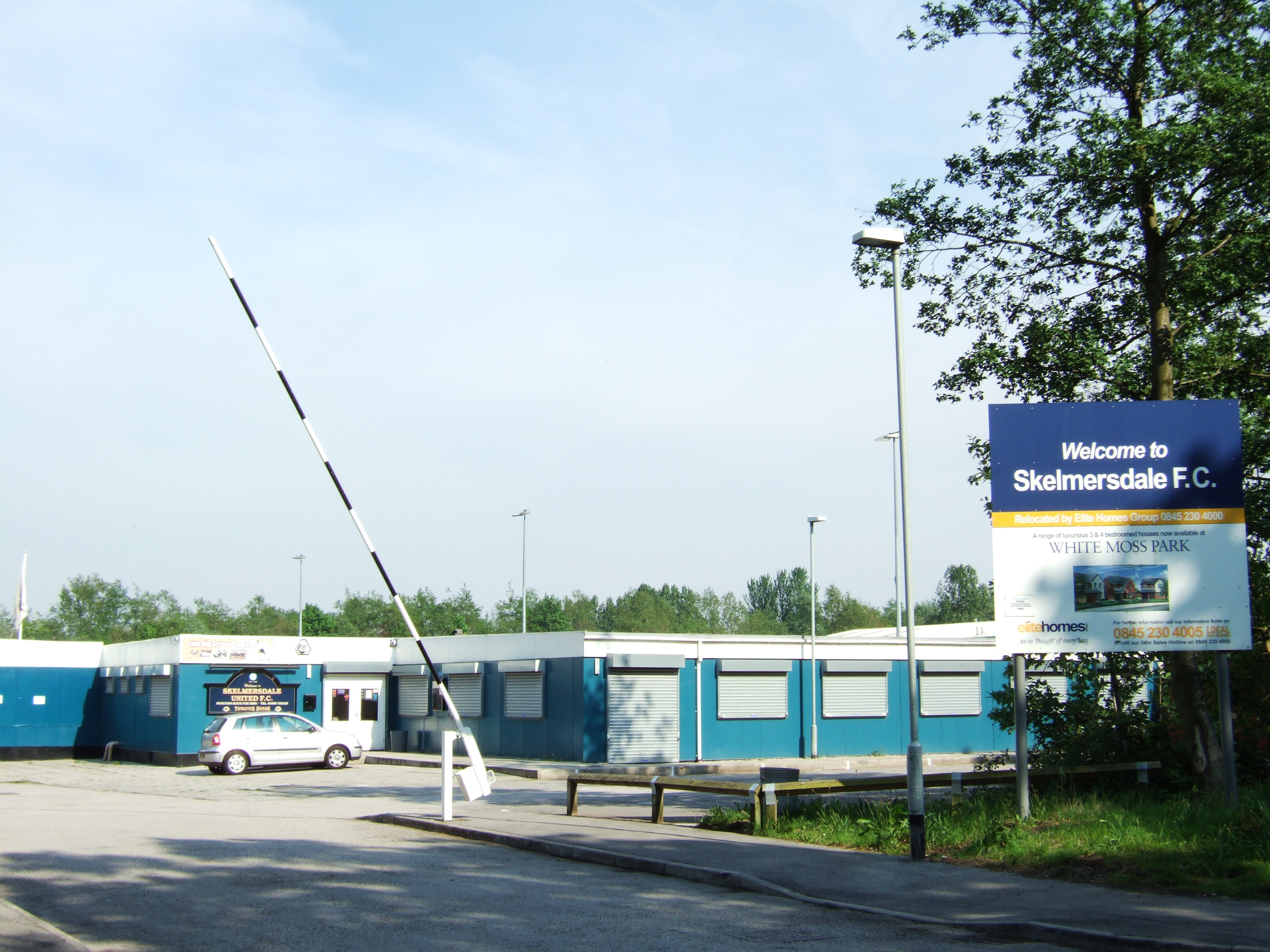 The West Lancashire College Stadium (formerly the Skelmersdale & Ormskirk College Stadium), home of Skelmersdale United F.C. since 2004.